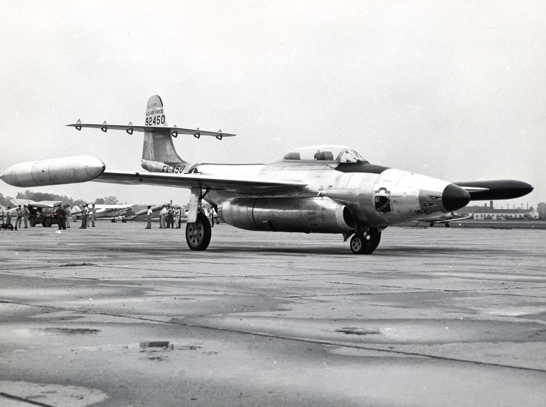 Northrop F-89B (S/N 49-2450) at Eglin Air Force Base, Fla. Note the external vibration dampeners on the horizontal stabilizer. This distinguishing characteristic of -A and -B models was modified to an internal dampening system starting with the -C model.